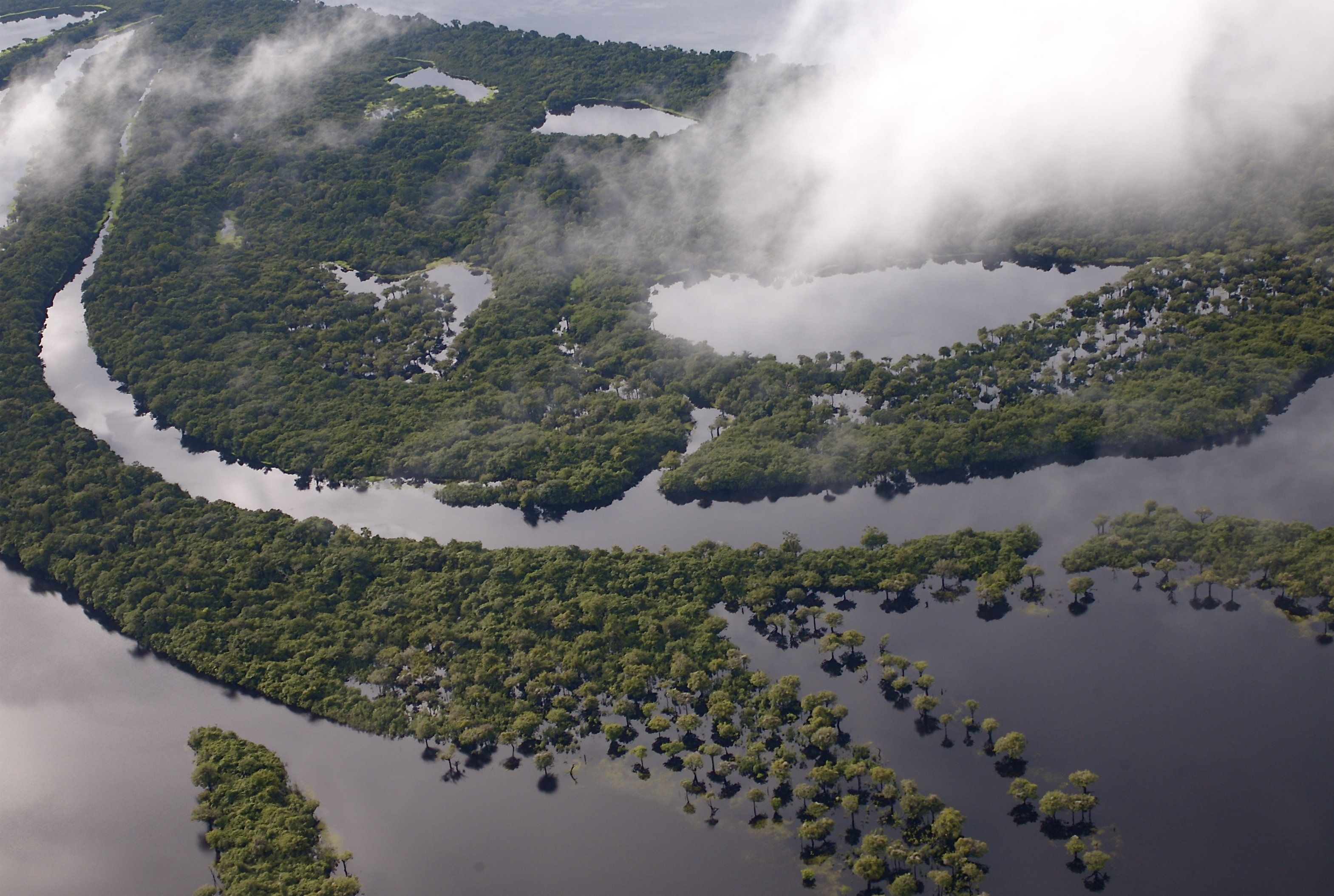 Jason and Capri's trip to Brazil 2007-2008